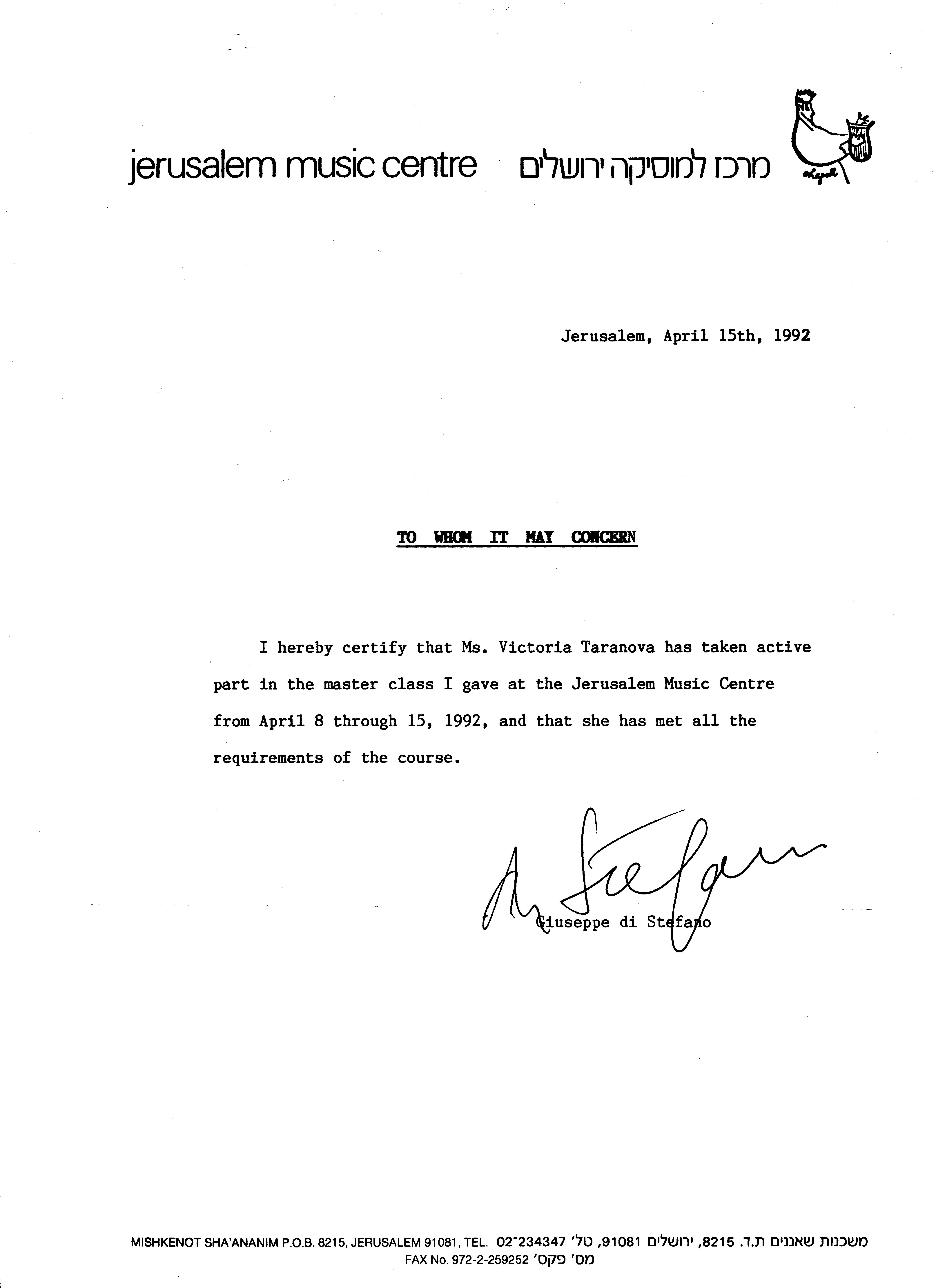 confirmation letter from Giuseppe Di Stefano regarding a masterclass attended by Таранова, Виктория (Victoria Taranova)